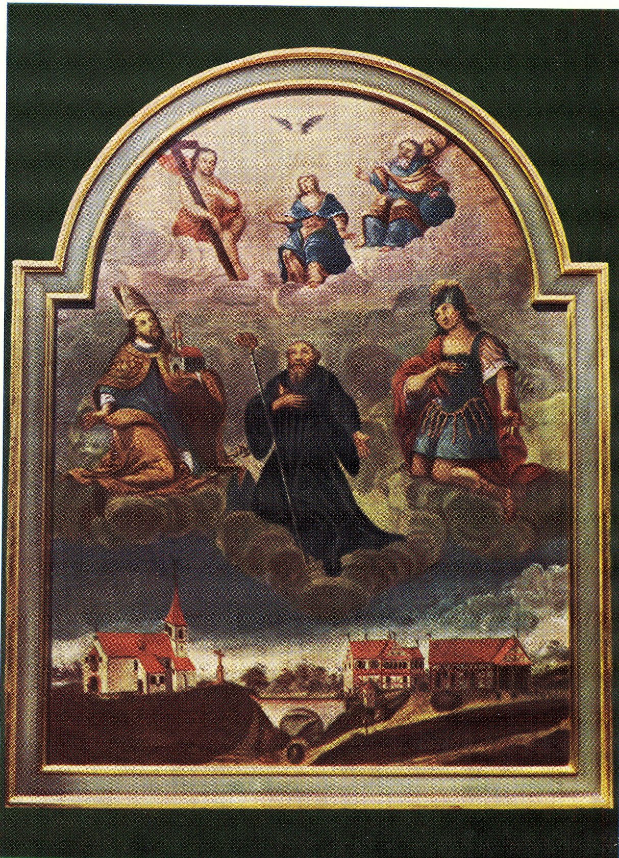 Painting in St. Gallus, Hohberg-Hofweier, Baden-Württemberg, Germany, the glory of Saint Gallus, artist unknown